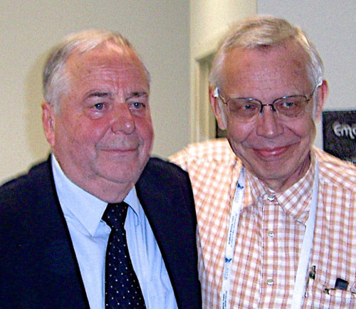 Menso Folkerts (left) and Jens Høyrup (right) at the 24th International Congress of History of Science, Technology and Medicine in Manchester, UK, 2013.